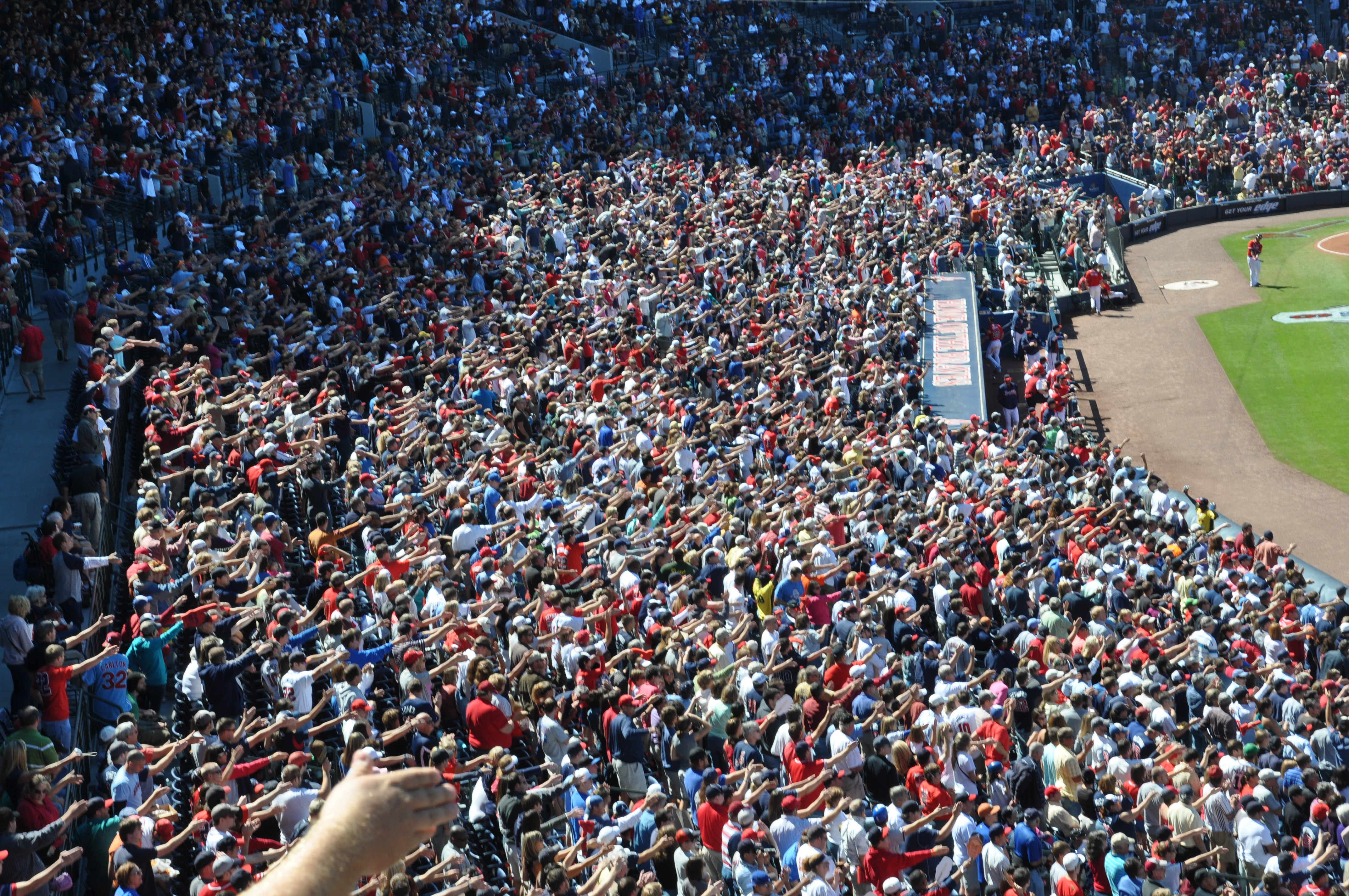 Fans of the Atlanta Braves doing the tomahawk chop during the last game of the 2010 MLB season